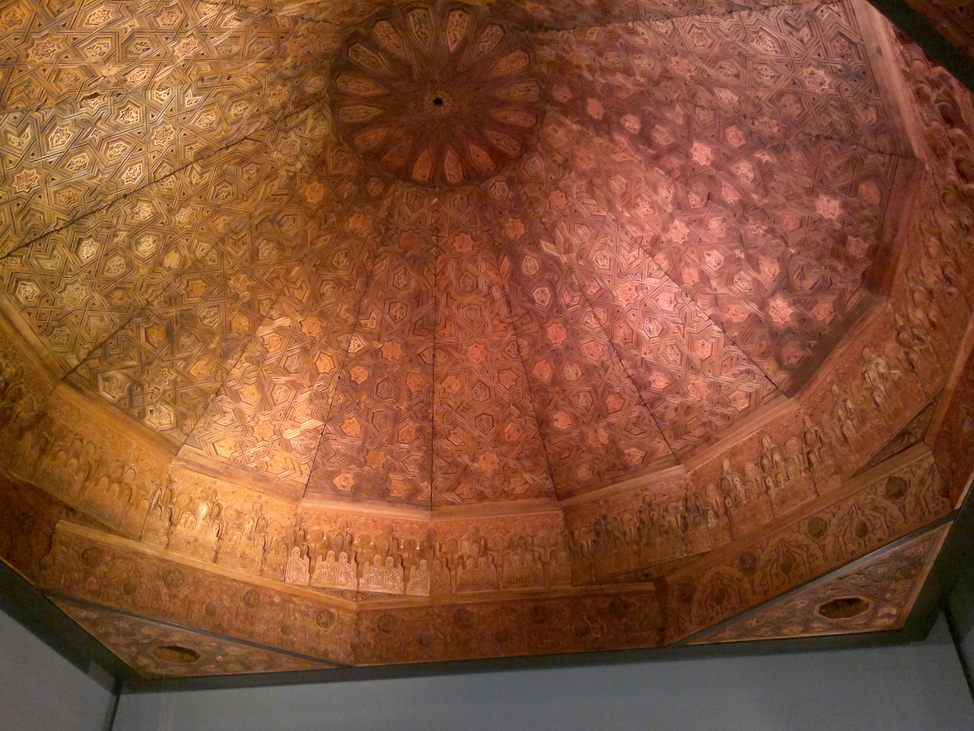 Domed roof from the Alhambra. Granada, early 14th century. Cedar and poplar, carved and partly painted. 1.90 x 3.55 x 3.55 m